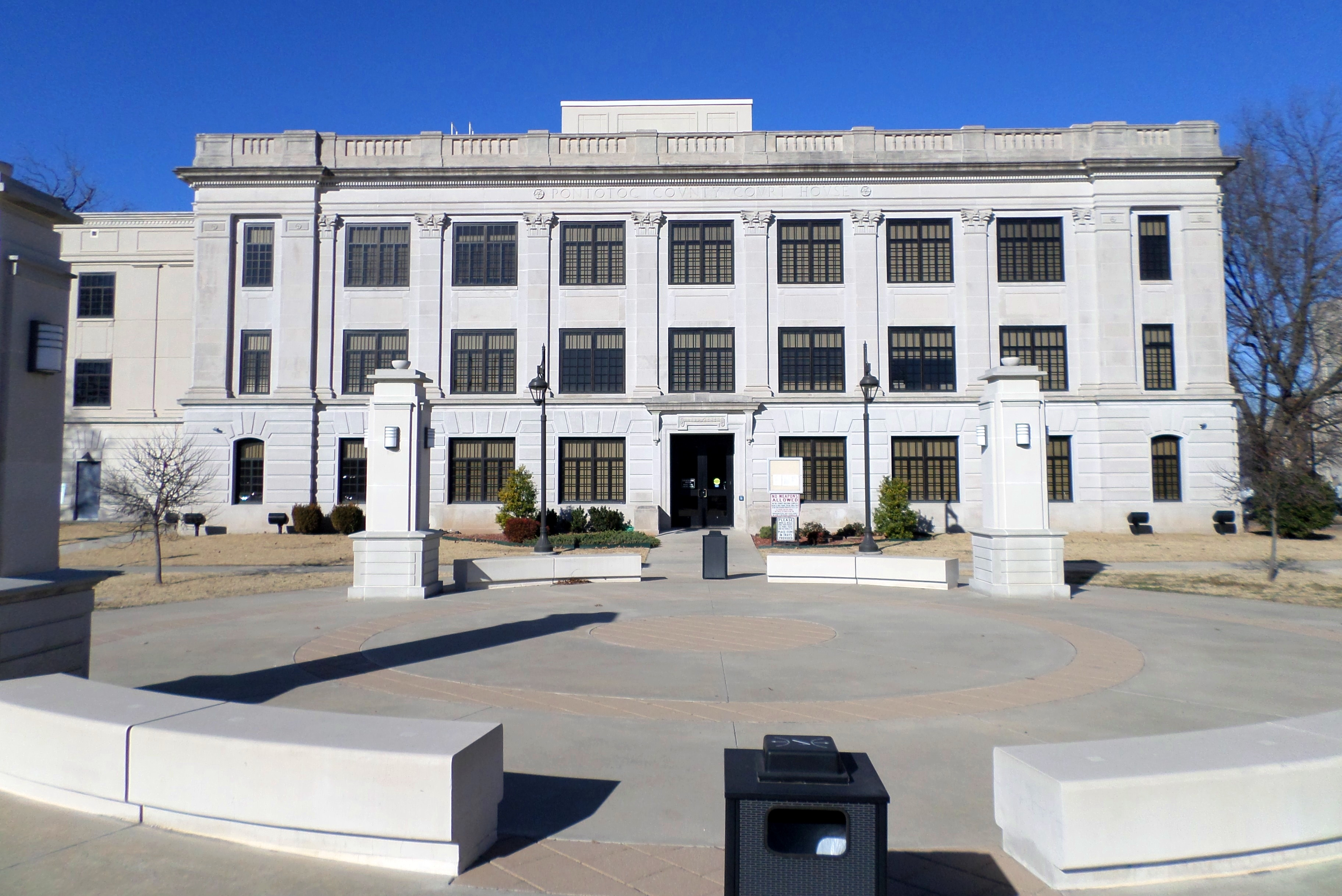 The Pontotoc County Courthouse, located at 120 W. 13th St., Ada, Oklahoma. The building is listed on the National Register of Historic Places.